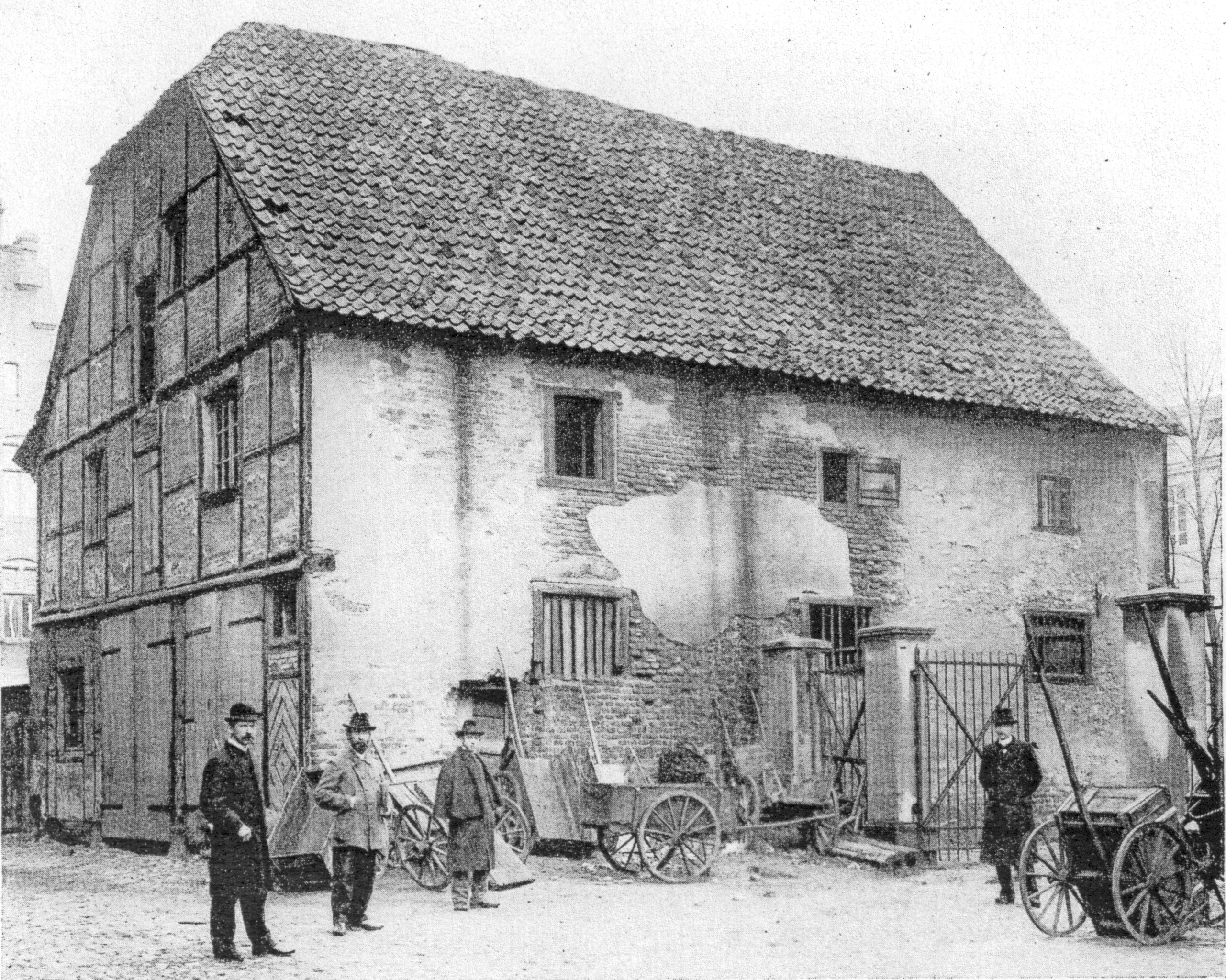 The stable of the historical city hall in Münster, Westphalia, Germany, around 1900